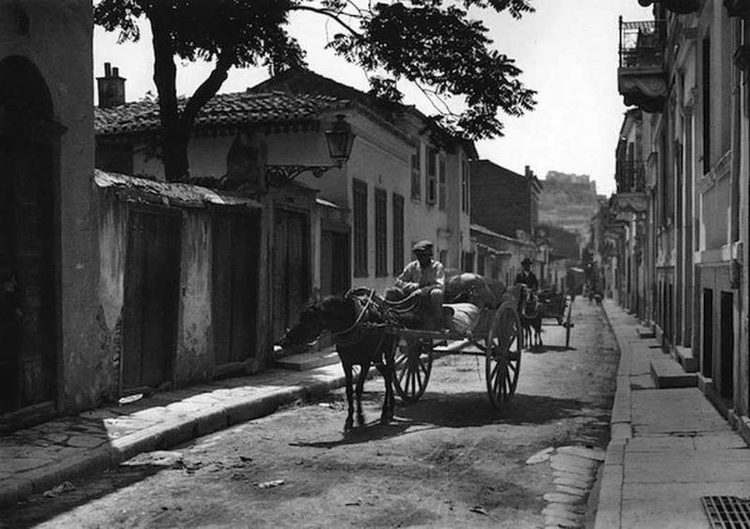 A street in the Plaka district of Athens